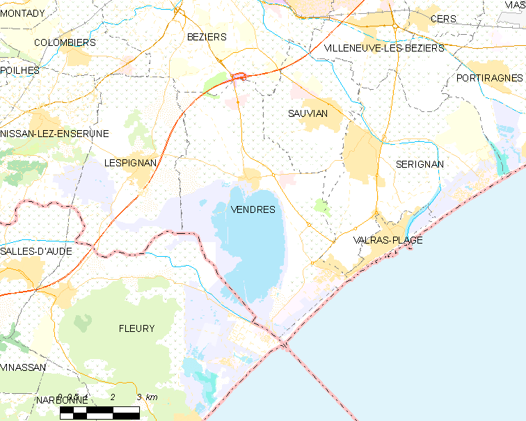 Map commune FR insee code 34329.png - Vendres